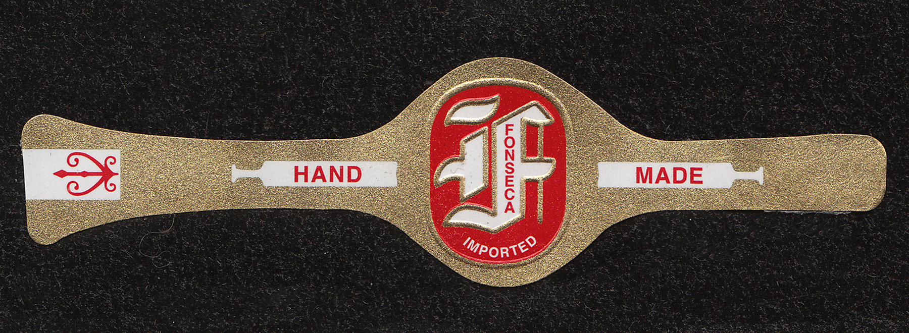 Cigar band from a Fonseca cigar from the collection of Tim Davenport. Scanned for Wikipedia. Some digital editing performed, no copyright claimed. Creative Commons Attribution-Share Alike 3.0.